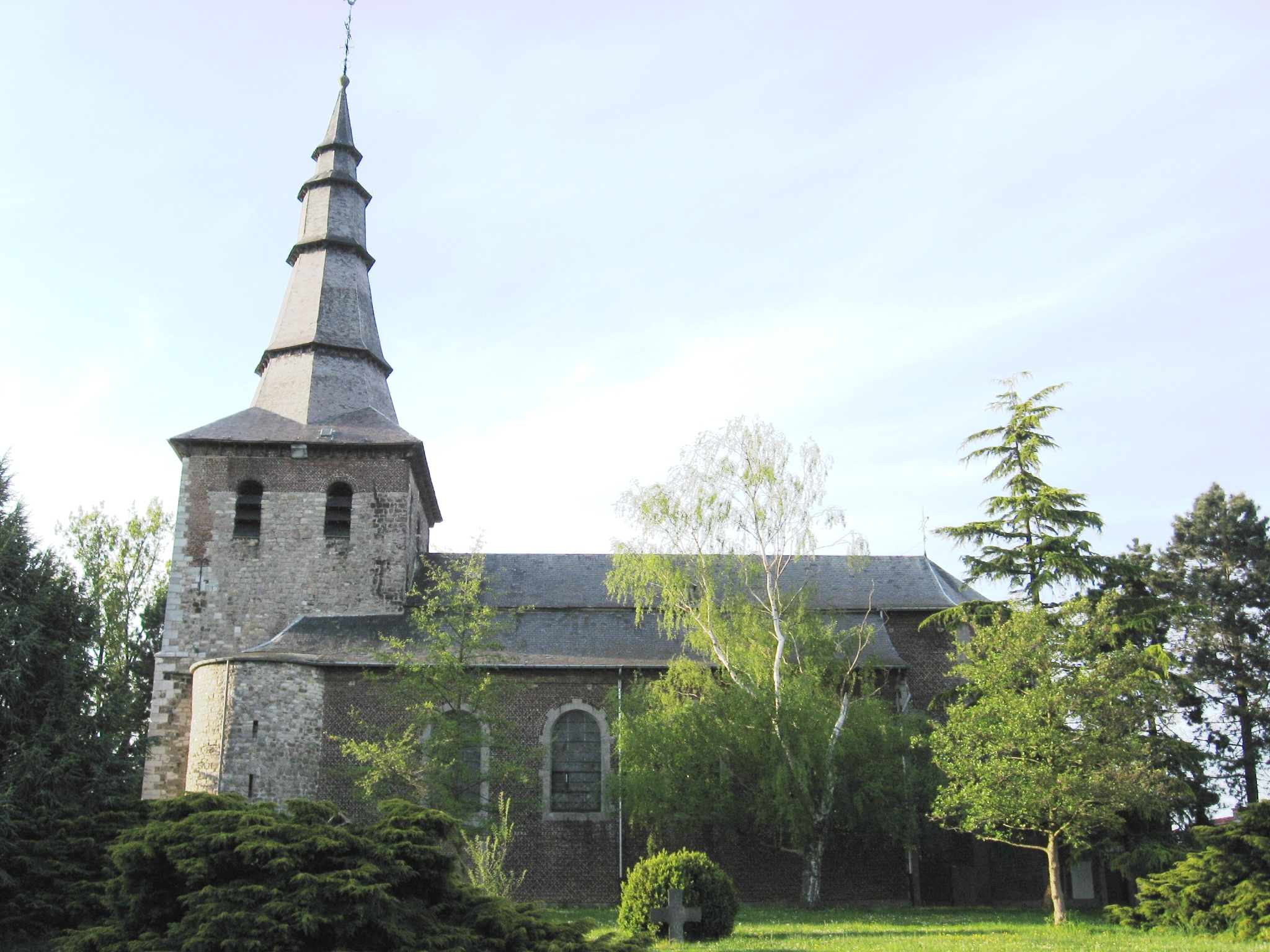 Church of Saint Martin in Thisnes, Hannut, Liège, Belgium